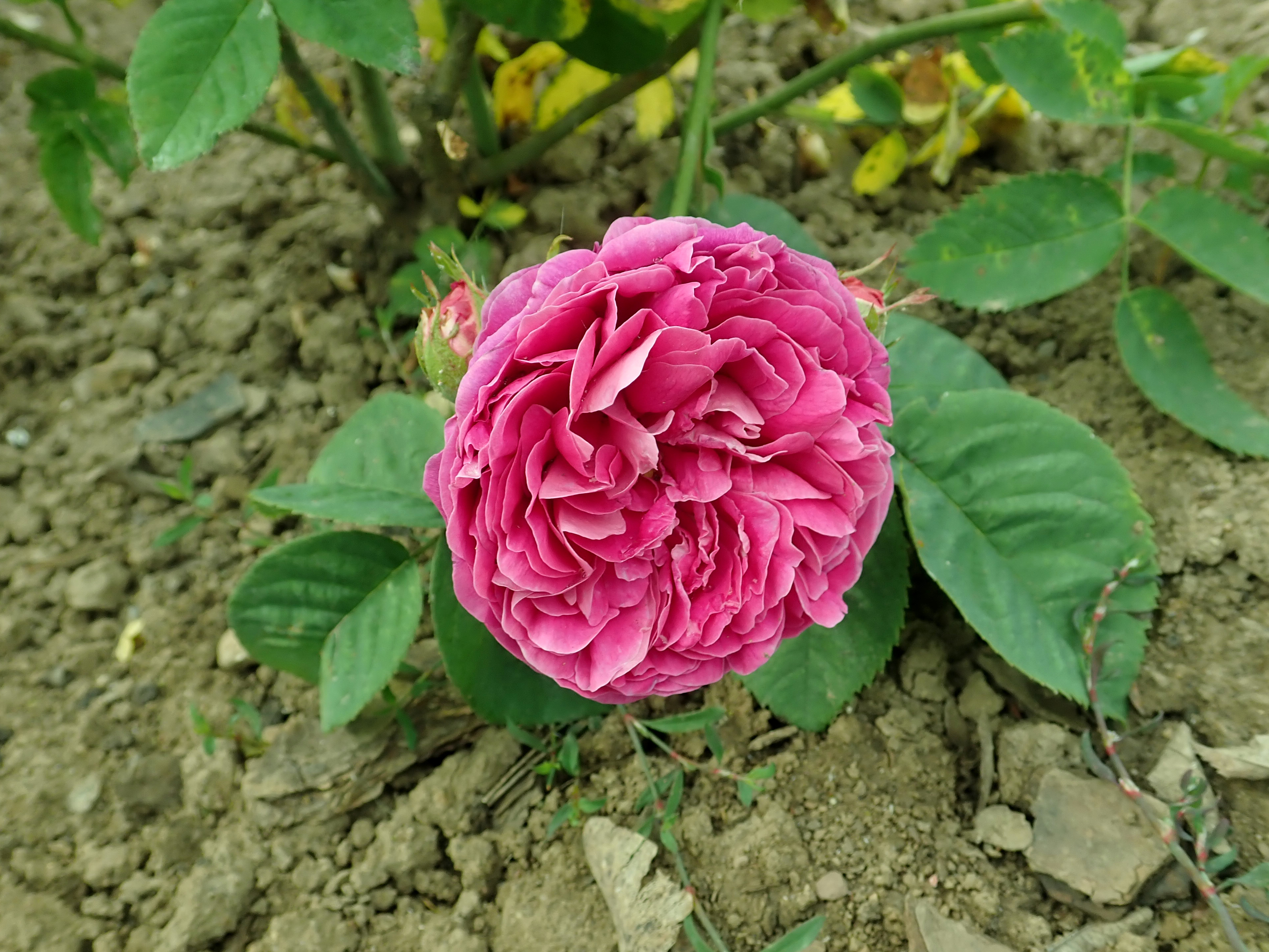 Rosa ‘Duc de Cazes’ (Touvais, 1861), Europa-Rosarium Sangerhausen.